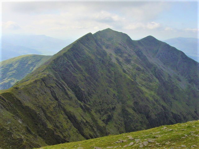 Caher from Carrauntoohil The shapely summit ridge of Caher from Carrauntoohil.